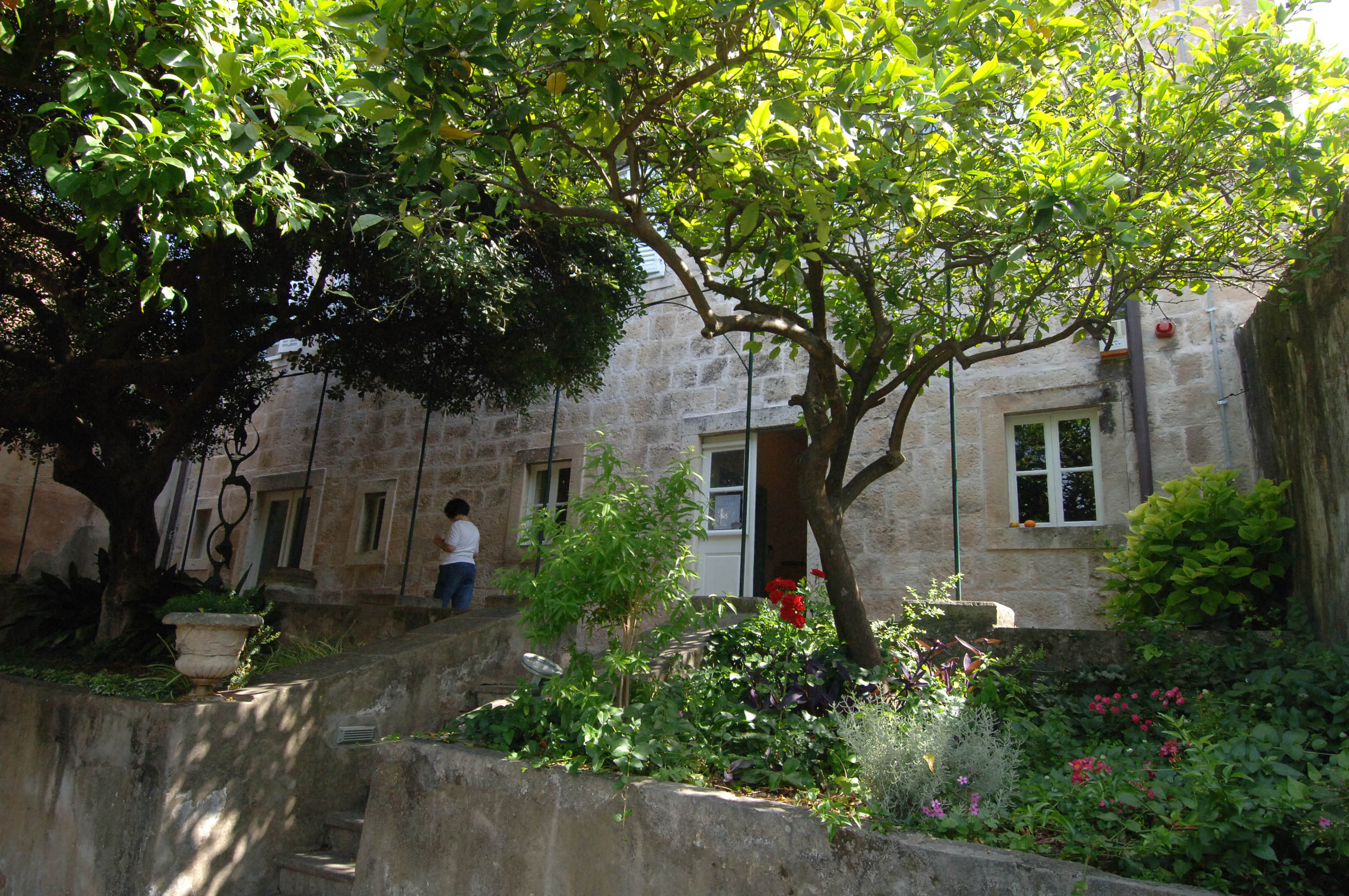 HOME OF VLAHO BUKOVAC - PAINTER; THE HOME OF FAMOUS CROATIAN ARTIST, VLAHO BUKOVAC, BORN IN CAVTAT WAS DECLARED A CULTURAL MONUMENT IN 1969. THE HOUSE IS NOTED FOR ITS ARCHITECTURE AND GARDENS